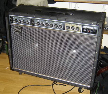 Photo of Jazz Chorus 120 in a bedroom.